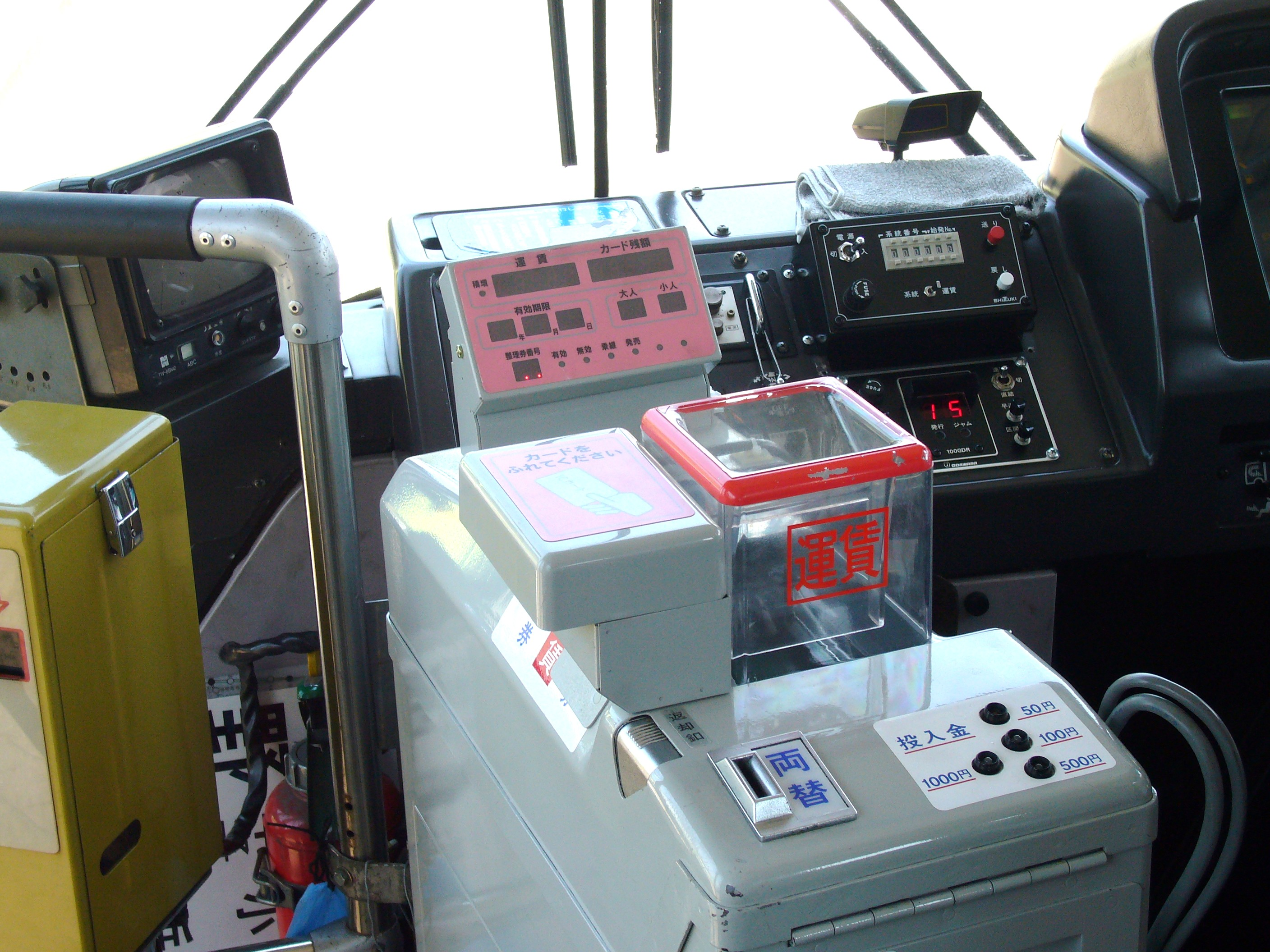 Photograph of Nagasaki smartcard's card reader.